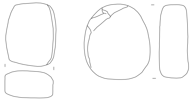 Quartzite fire-flint